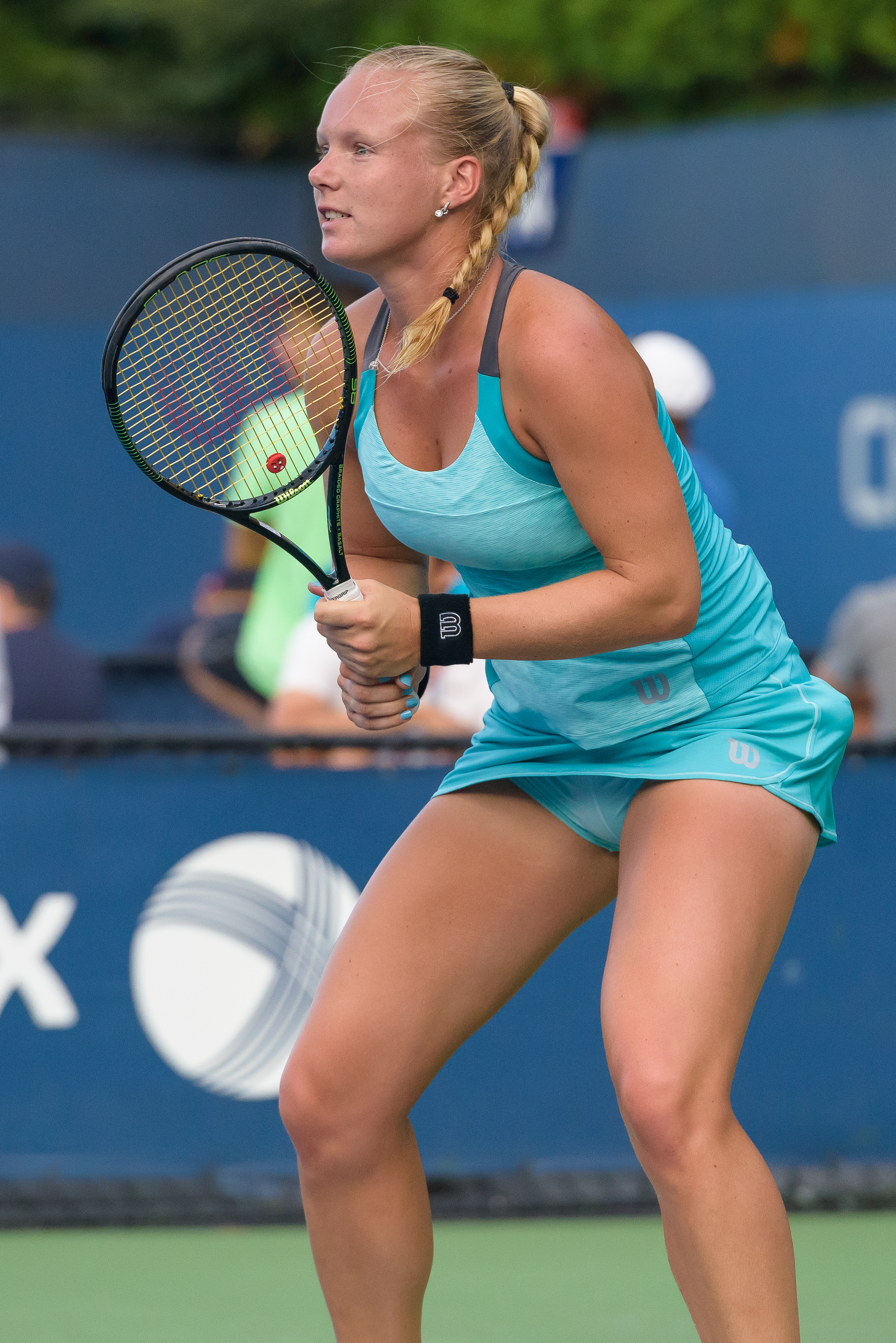 August 27, 2015 Court 13 Flushing, NY